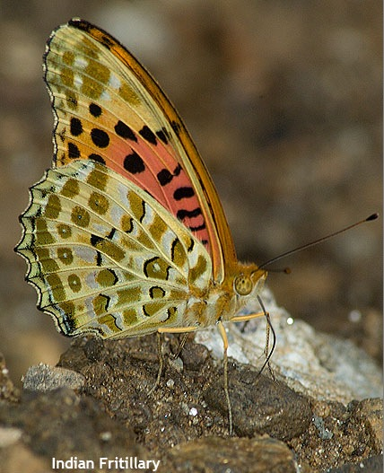 by Dhaval Momaya during August 2005 at Bomdila, Arunachal Pradesh.